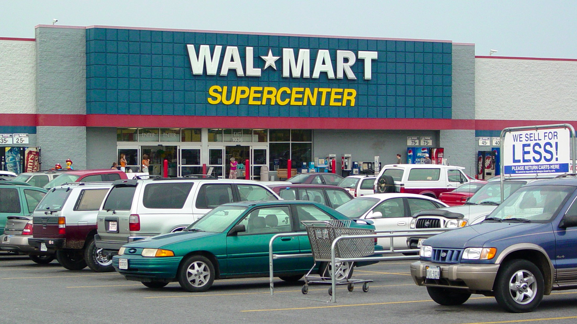 Wal-Mart Supercenter in Luray, Virginia. This Supercenter is so small that it only has one entrance rather than the two that Supercenters usually have.